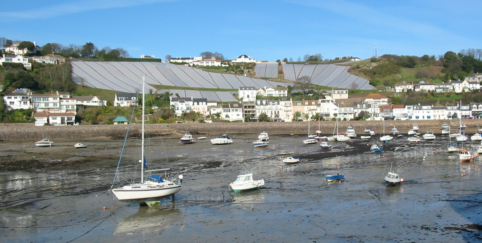 Jersey Nrf: Jèrri